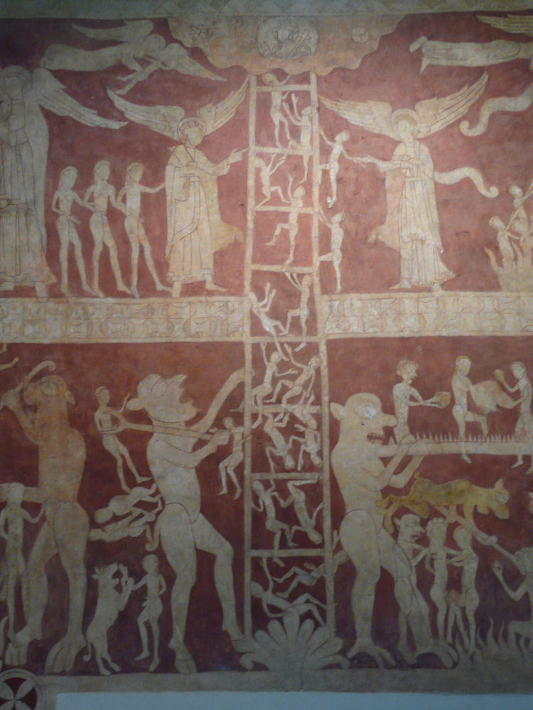 12c wall painting at the Parish Church of St. Peter & St. Paul, Chaldron, Surrey, England